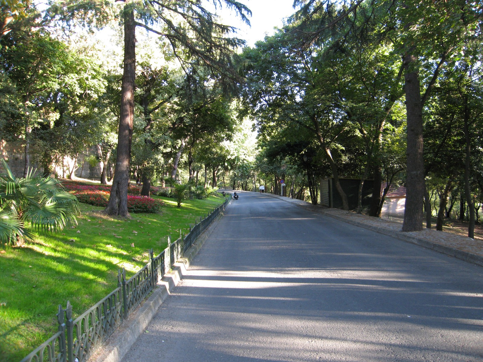 On the way to the porcelain factory in Yıldız Park, Istanbul, Turkey.